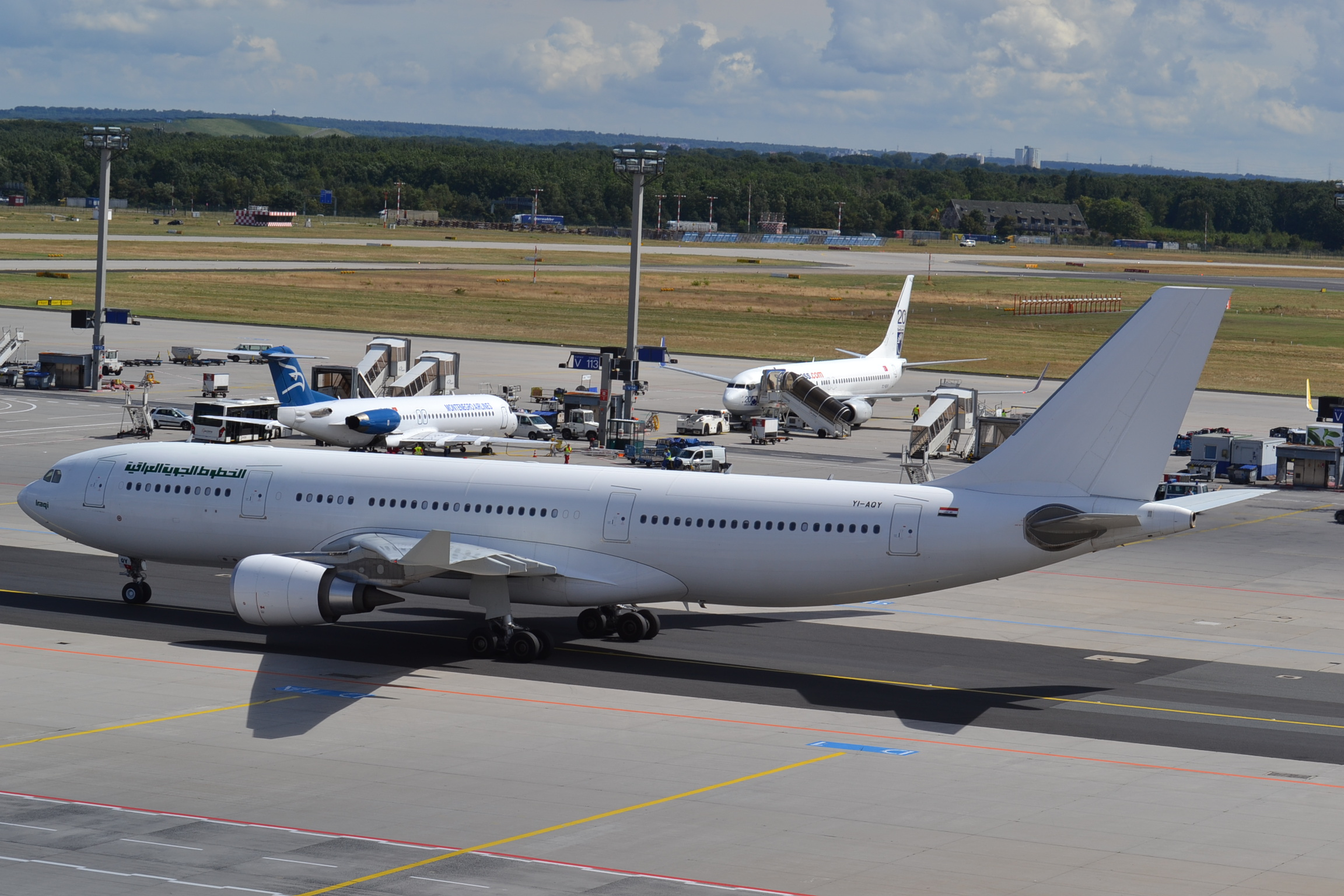 Airbus A330 of Iraqi Airways at Frankfurt-FRA,Germany,19/08/13.